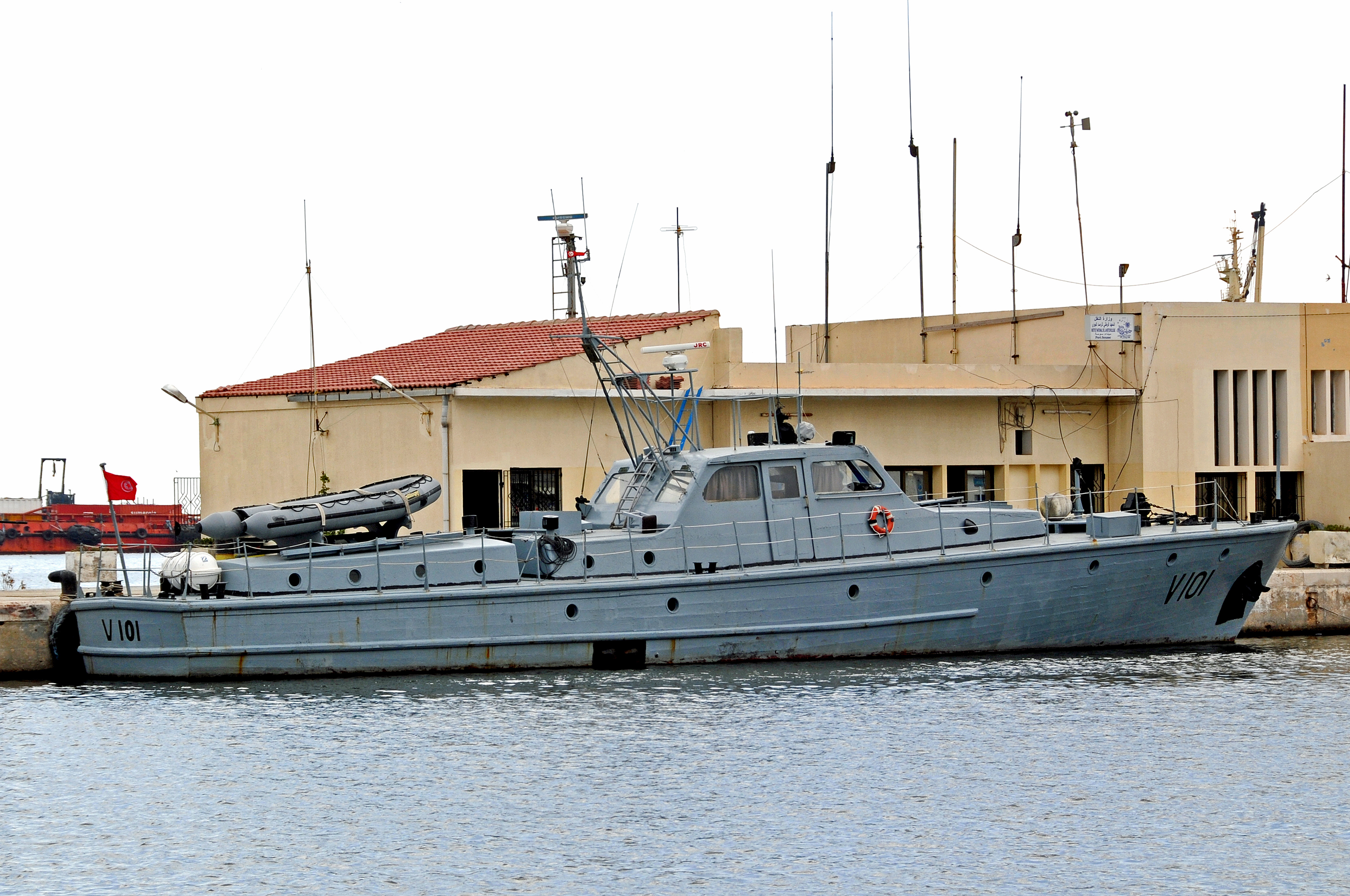 PLEASE, no multi invitations, glitters or self promotion in your comments, THEY WILL BE DELETED. My photos are FREE for anyone to use, just give me credit and it would be nice if you let me know, thanks - NONE OF MY PICTURES ARE HDR. Because I worked for the Navy for 35 years (as a civilian) I have an attraction to naval vessels. Tunisian Coastal Patrol Boat V101. It appears to be a wooden hulled ship. Displacement tons : 38 full load Dimensions in feet (metres) : 83 x 15.6 x 4.2 ( 25 x 4.8 x 1.3) Main machinery : 2 Detroit 12V TA Diesels 840 HP (627 kW) sustained 2 shafts Lips cp props Speed knots : 23 Range in miles : 900 at 15 kt Complement : 11 Guns : 1 Oerlikon 20 mm (not on the boat, only the mount up front) Radars : Surface search Racal Decca 1226 I/band Built by Chantiers Naval de l´ Esterel and commissioned in 1961-1963. Two further craft of the same design (Sabaq el Bahr T2 and Jaouel el Bahr T1) but unarmed were transferred to the Fisheries Administration in 1971.